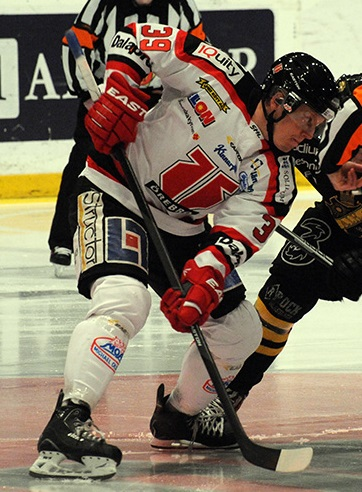 Ville Viitaluoma during a SHL game against AIK.